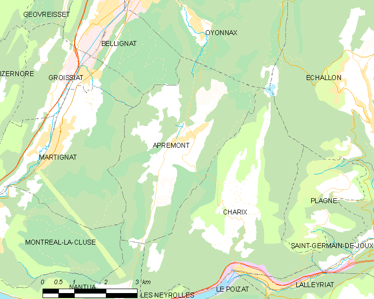 Map of French commune: Apremont Map commune FR insee code 01011.png